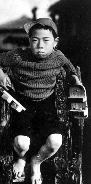 Tomio Aoki in the the 1932 film Was Born, But... directed by directed by Yasujiro Ozu